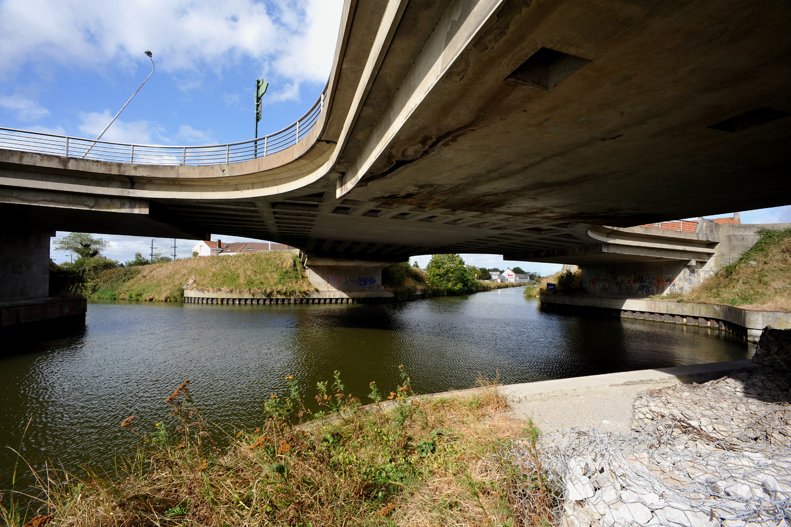 Pont sans pareil in Pont d'Ardres; four roads crossing over four channels; Pas-de-Calais, France.